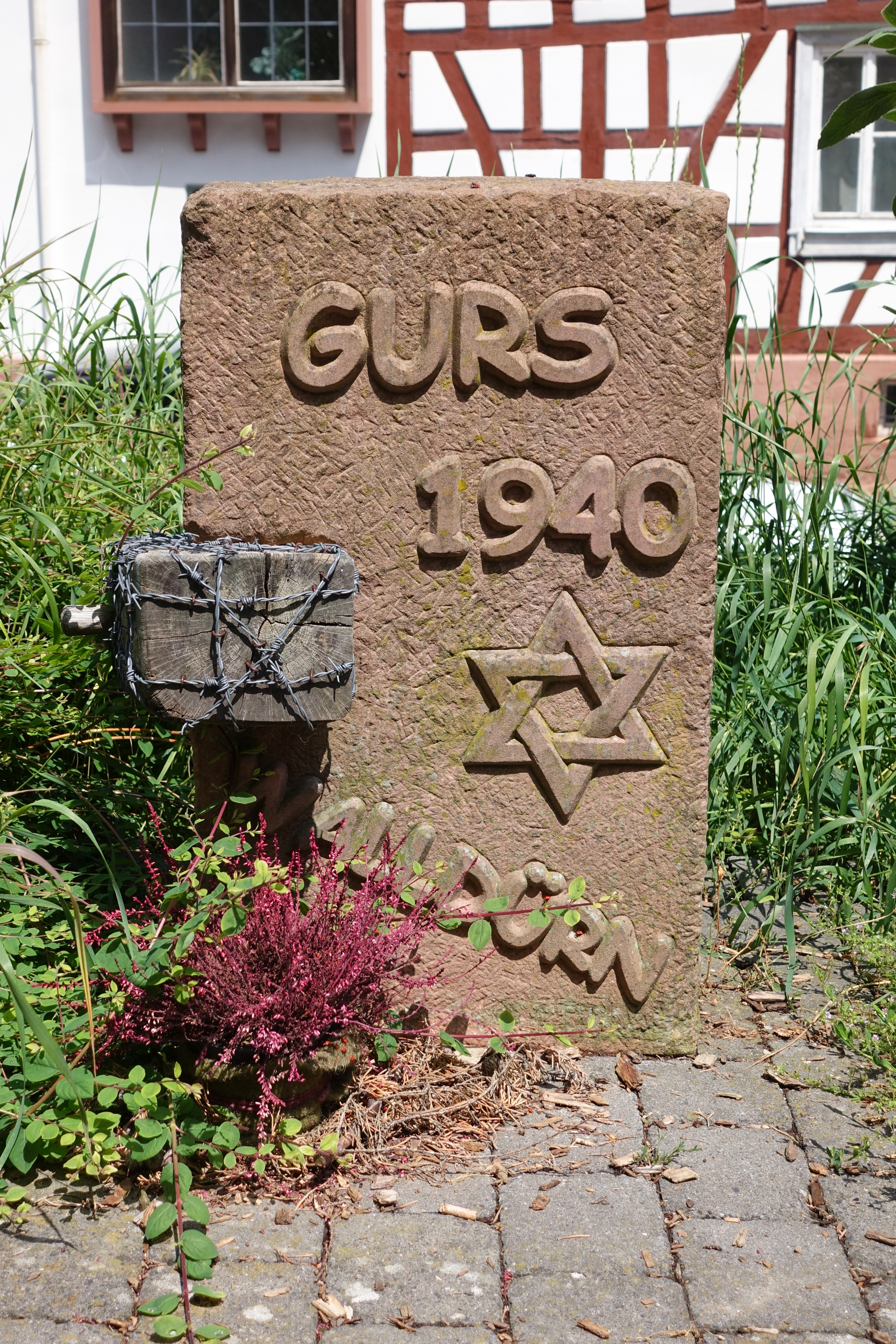 Walldürn, Germany, deportation memorial Gurs 1940